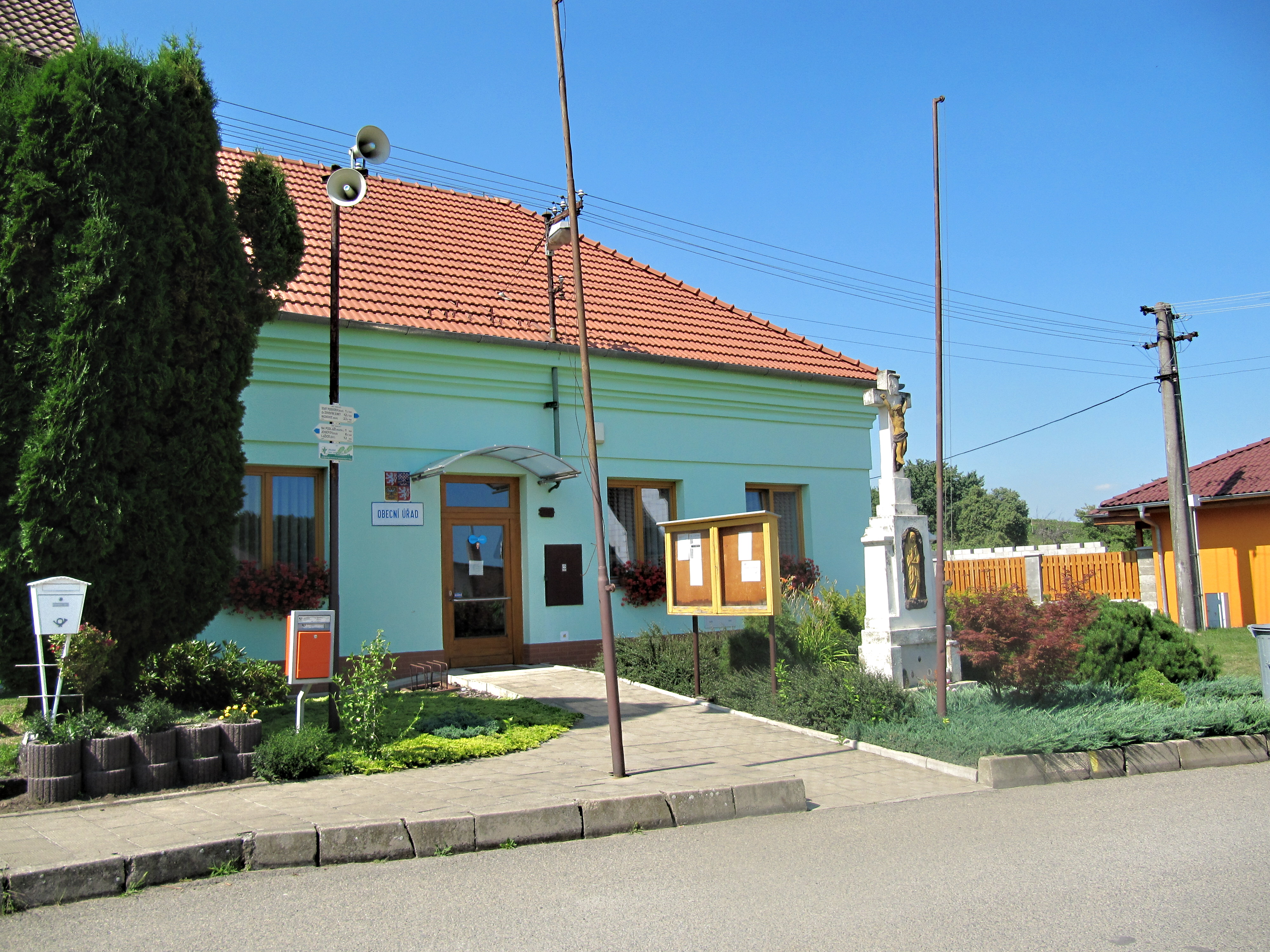 Nový Poddvorov in Hodonín District, Czech Republic. Municipal office.